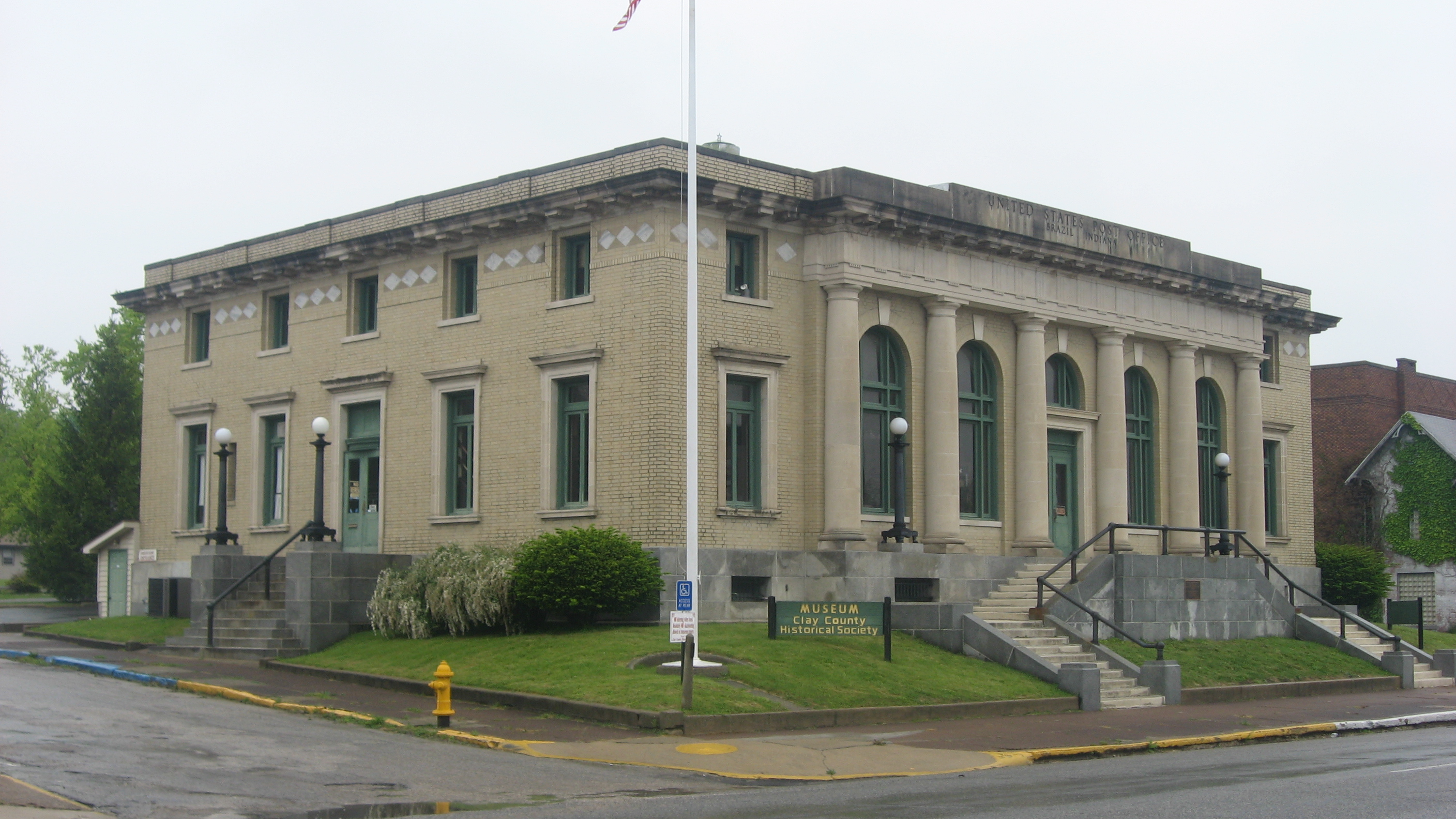 Front and western side of the former U.S. Post Office for Brazil, located at 100 E. National Avenue (U.S. Route 40) in Brazil, Indiana, United States. Built in 1913 and since converted into a museum, it is listed on the National Register of Historic Places, and it is part of a Register-listed historic district, the Brazil Downtown Historic District.